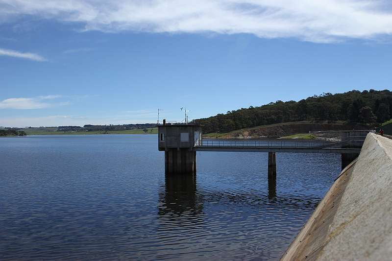 Oberon Dam